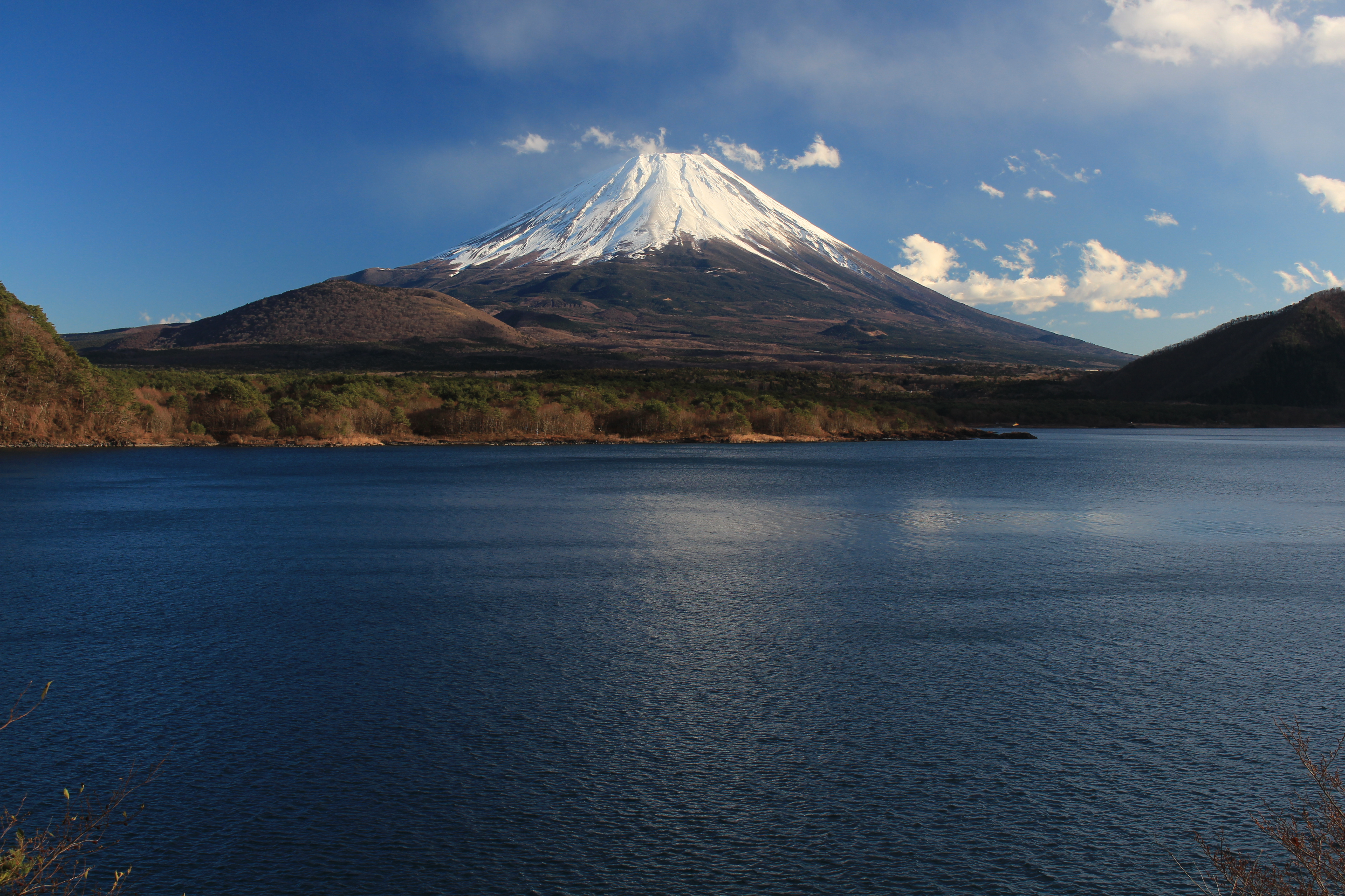 Mount Fuji seen from Lake Motosu in Yamanashi prefecture, Japan.